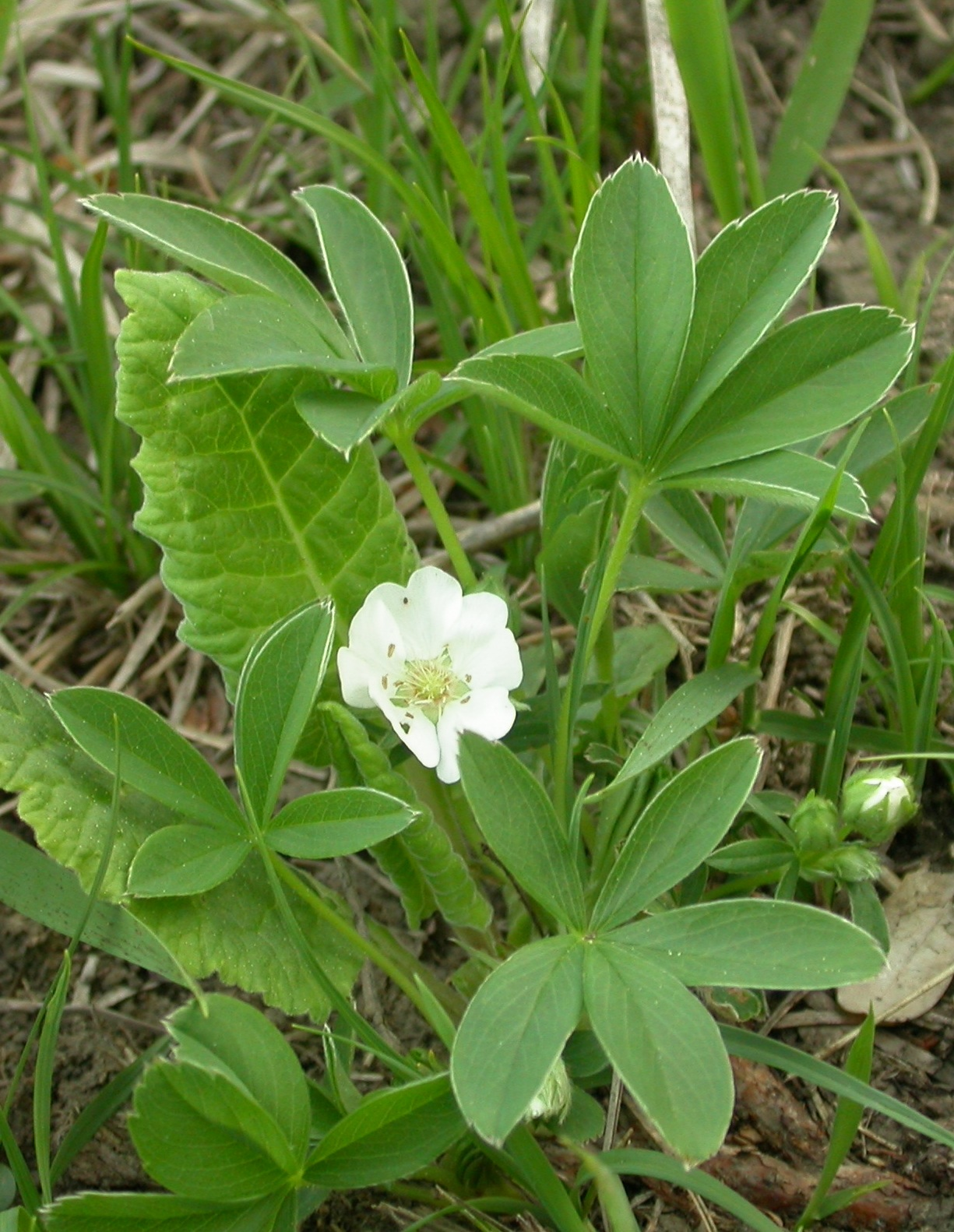 Potentilla alba, Bílé Karpaty Mountains, Czech Republic